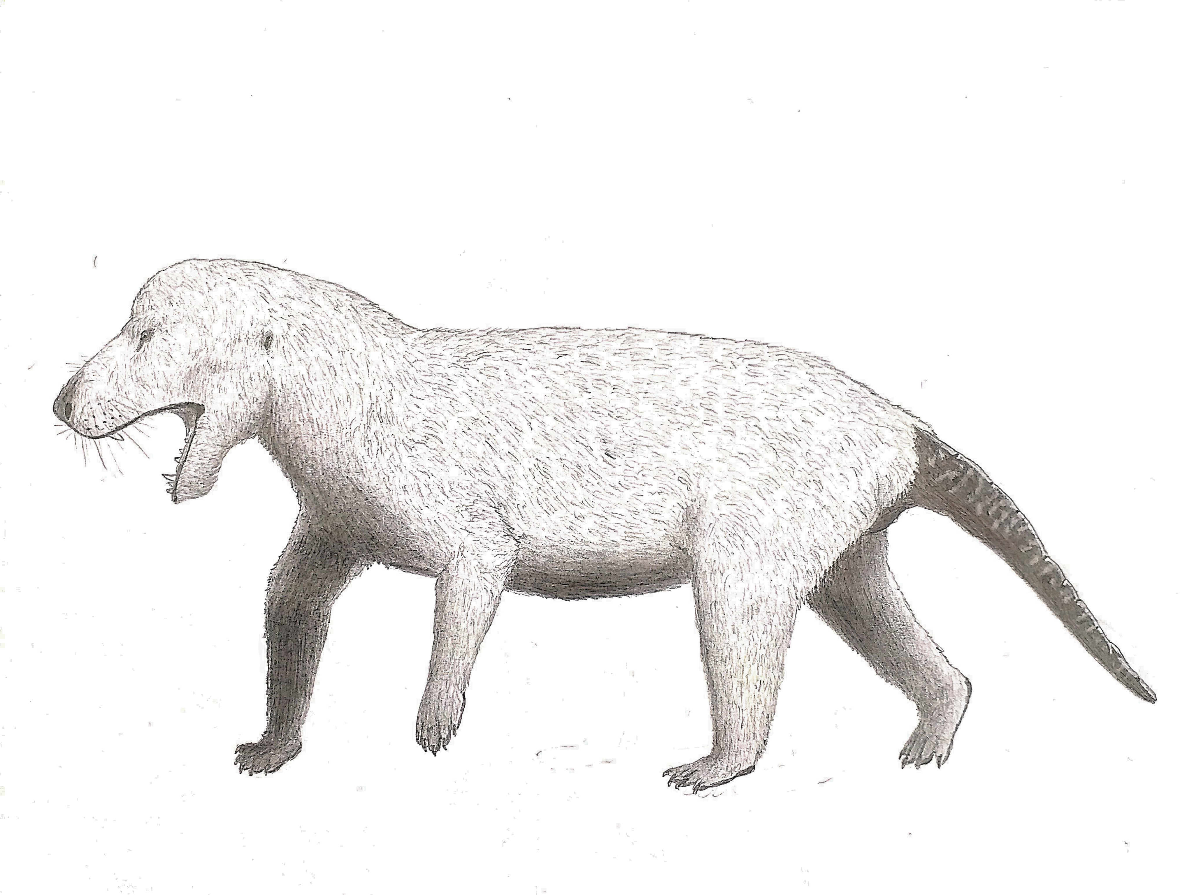 Reconstruction of Cynognathus crateronotus